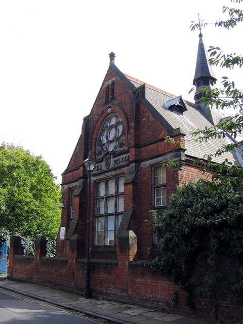 Charterhouse Lane Board School. Charterhouse Lane Board School, 1881, Gothic, by William Botterill.